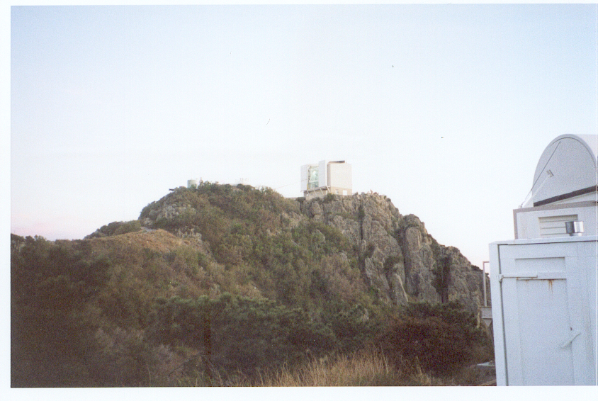 The open dome of the MMT, as seen from the IOTA site